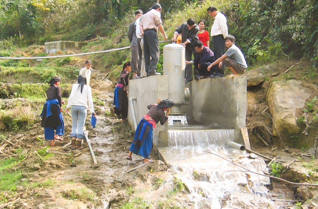 Borda hydro ram in Vietnam